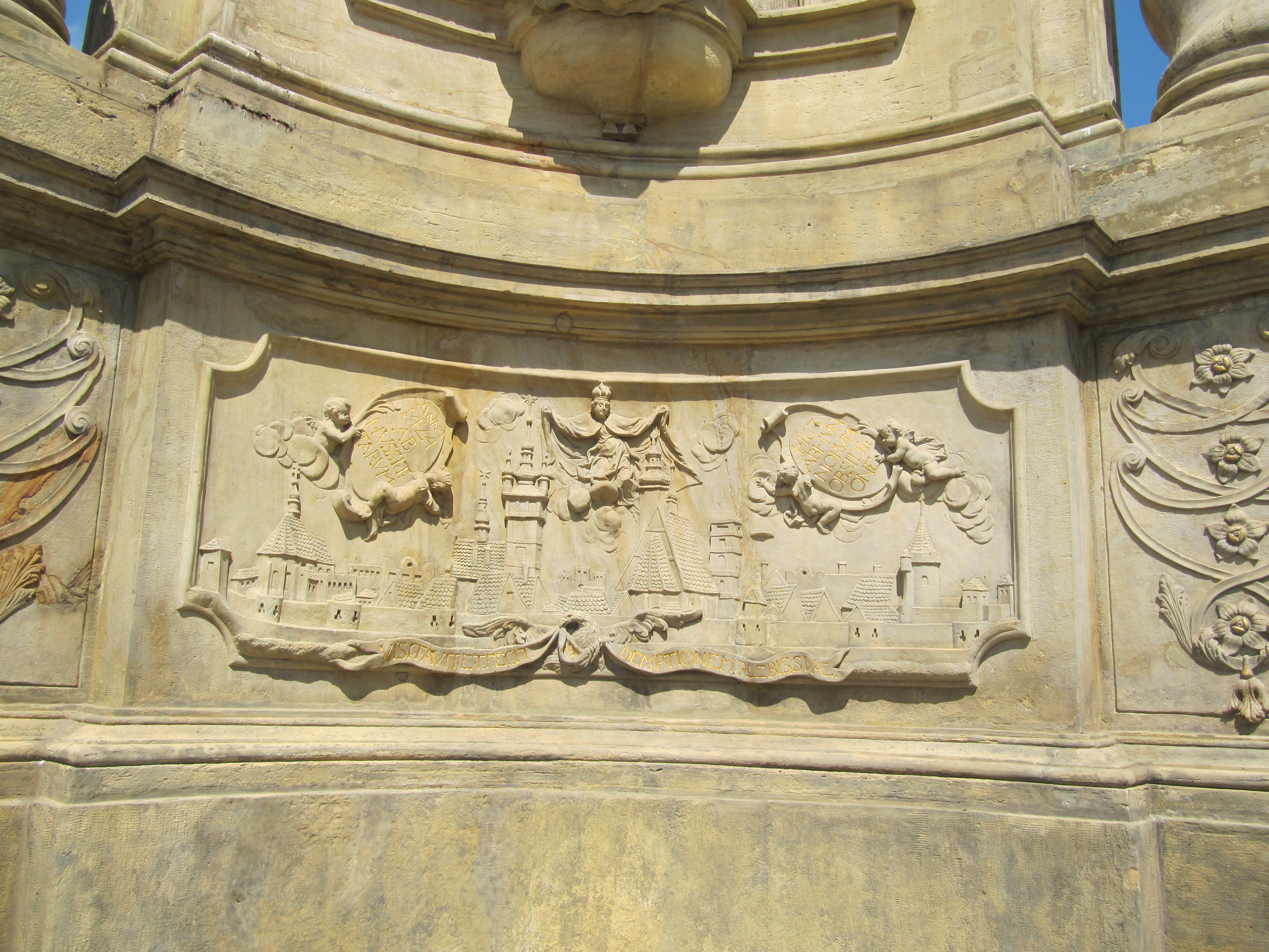 Uničov in Olomouc District, Czech Republic. Square Masarykovo náměstí, Maria column from 1743, vedutte of Uničov and the Virgin Mary the Protector.